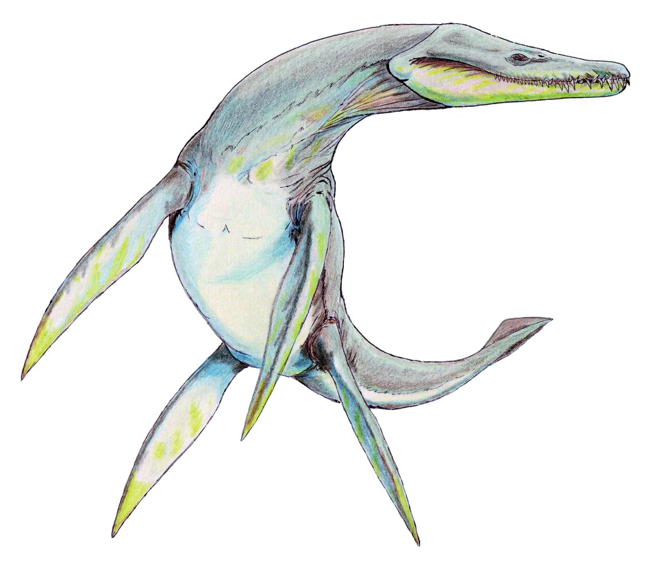 Atychodracon megacephalus (formerly Rhomaleosaurus)